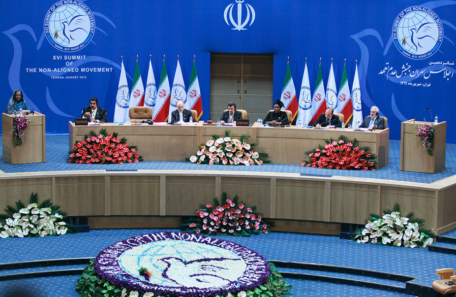 Closing ceremony of the Non-Aligned Movement (NAM) summit with the presence of members’ heads of state with an inaugural speech by supreme leader of Iran, Ayatollah Ali Khamenei.